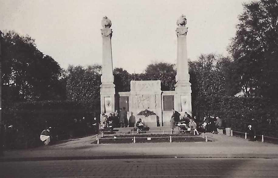 Berlin 1929 - Mariannenplatz - Fire department memorial